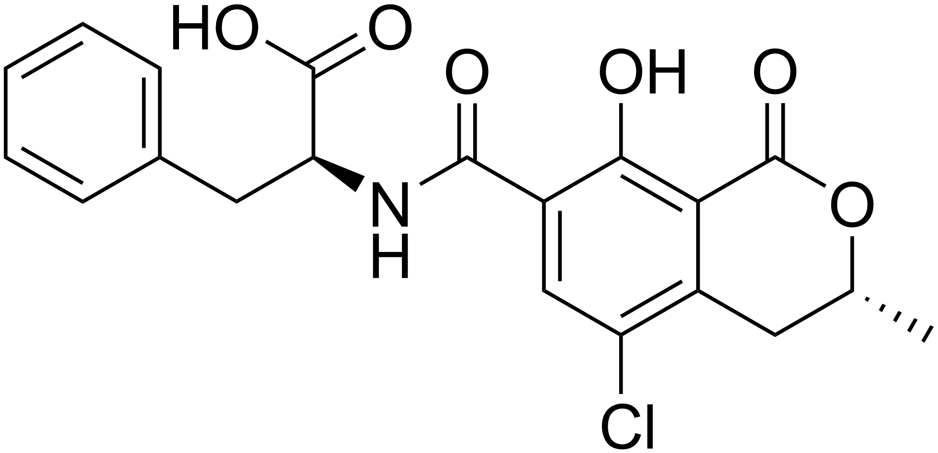 chemical structure of the mycotoxin ochratoxin A